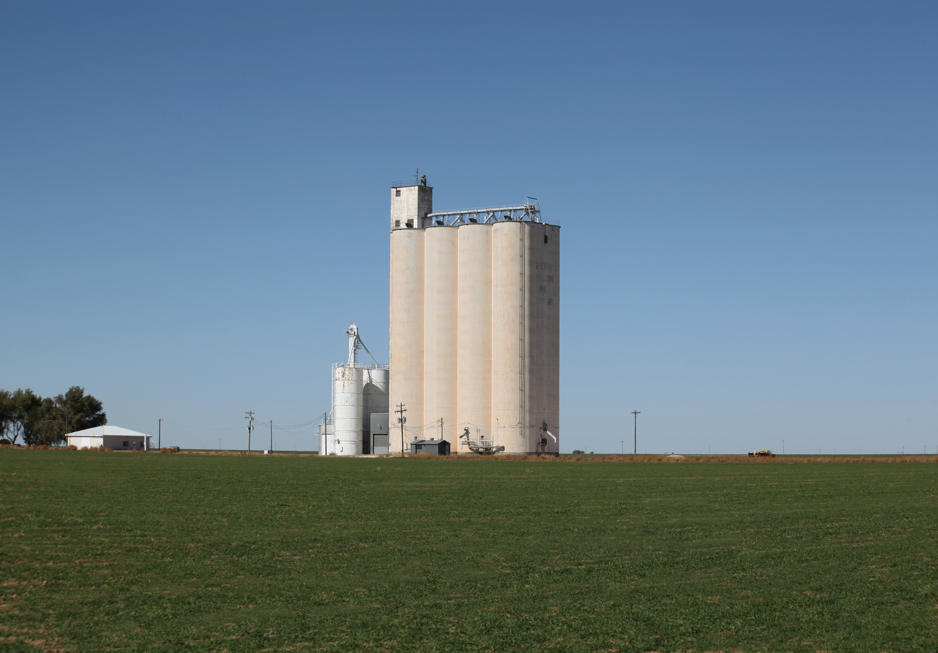 Grain elevator on the sparsely populated level plains of the Llano Estacado north of Rhea, Texas, in northwestern Parmer County.